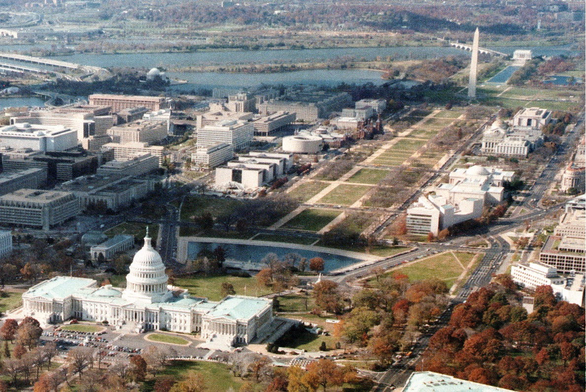 United States Capitol and Lincoln Memorial.